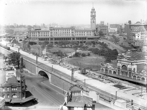 Early years of Central Station